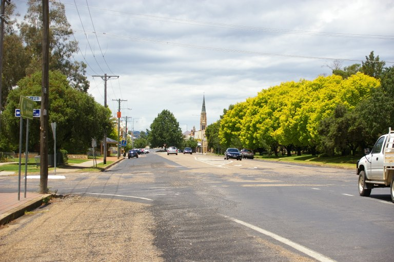 This image of Market Street Mudgee was made by me in January 2008